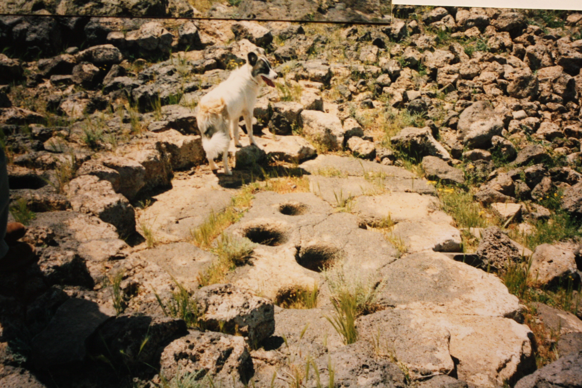 Khirbet al-Umbashi